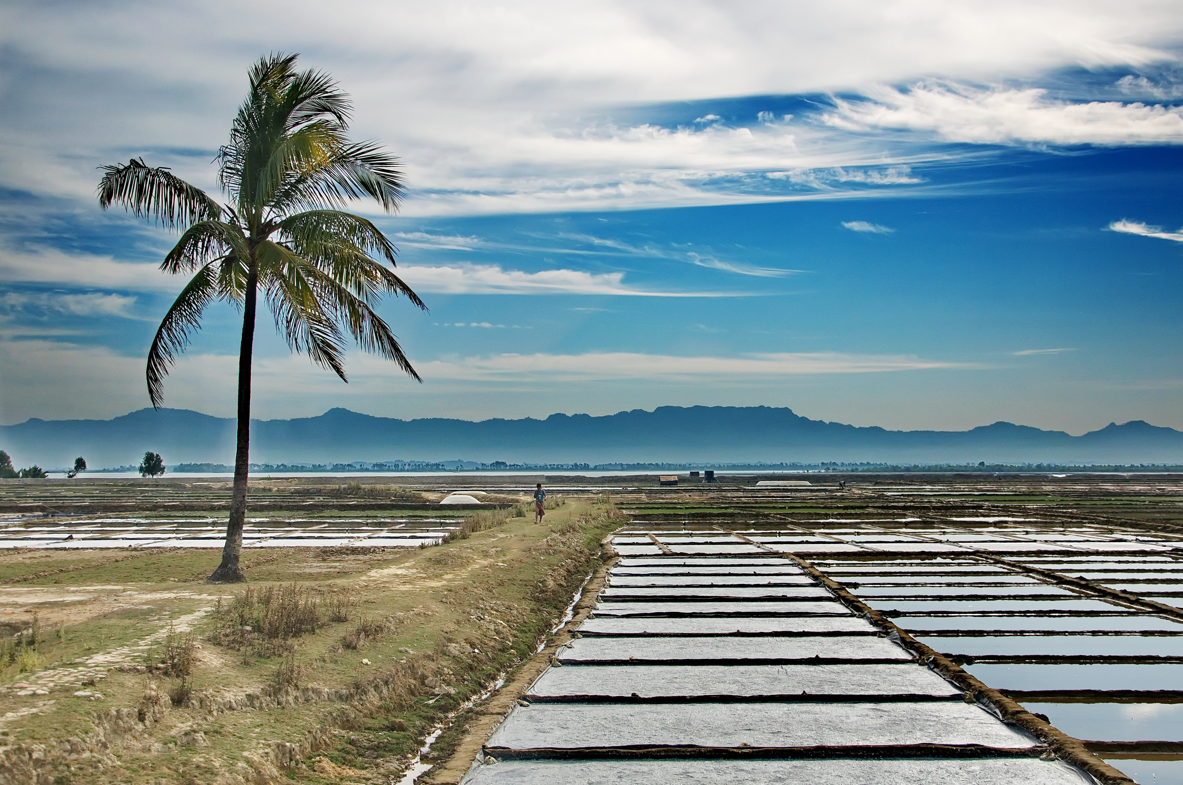 Salt fields located near Teknaf, Bangladesh